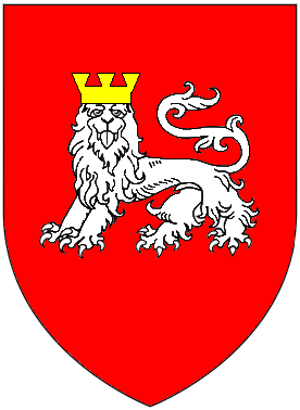 Arms of Lisle of Kingston Lisle, Sparsholt, Berkshire, England. In 1269 Alice FitzGerold granted the manor of Kingston to her younger son Gerard I de Lisle, whose family adopted the arms of FitzGerold: Gules, a lion statant guardant argent crowned or.